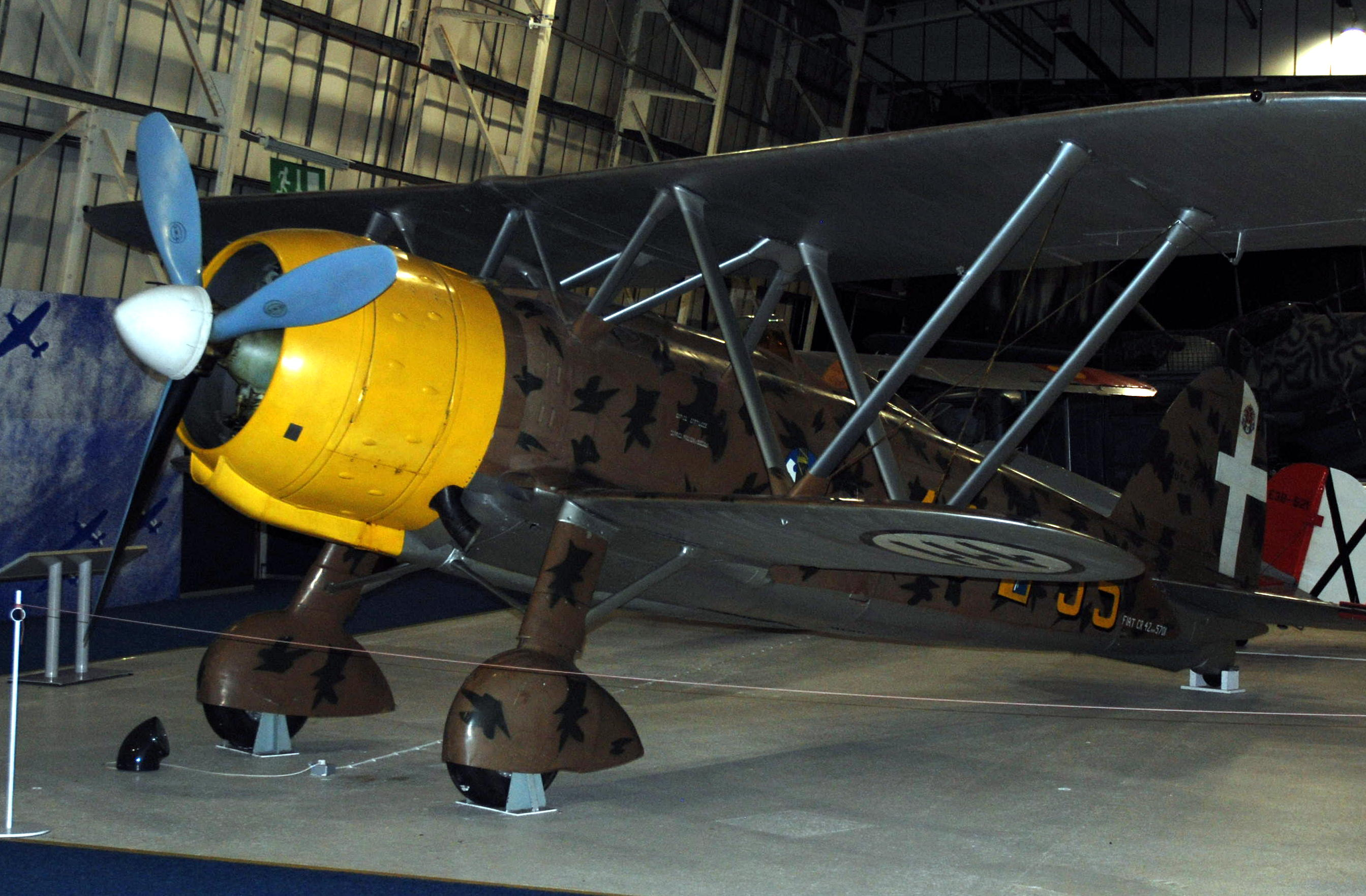 This aircraft (MM5701) was based in Belgium in th Autumn of 1940 as part of the Corpo Aereo Italiano, the Italian Air Force element involved in the Battle of Britain. On November 11th 1940 while on a escort mission over England, flown by Sergente Pietro Savadori, its engine overheated and the pilot made a forced landing on the shingle beach at Orford Ness, Suffolk. It was subsequently test flown by Captain Eric "Winkle" Brown who was impressed by its manoeuvrability noted that it was underarmed. Photo ref; Nikon-D80-2013-DSC_1256 (Edited)